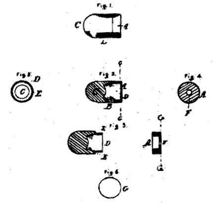 Image of Walter Hunt's Rocket Ball, taken from US Patent 5,701, issued Aug 10, 1848; reissue RE164 on FEb 20 1850